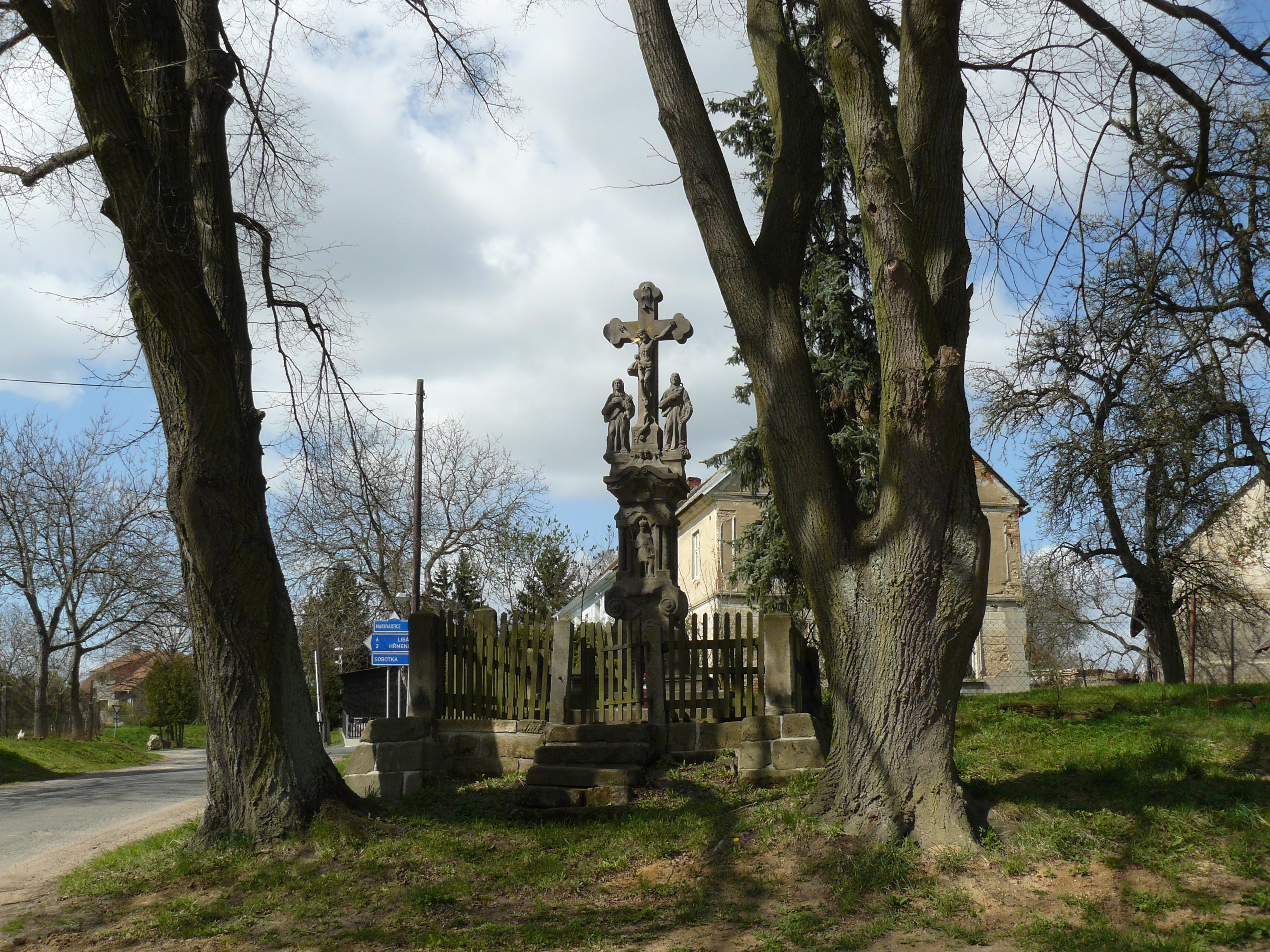 Rakov (Markvartice) - sandstone calvary